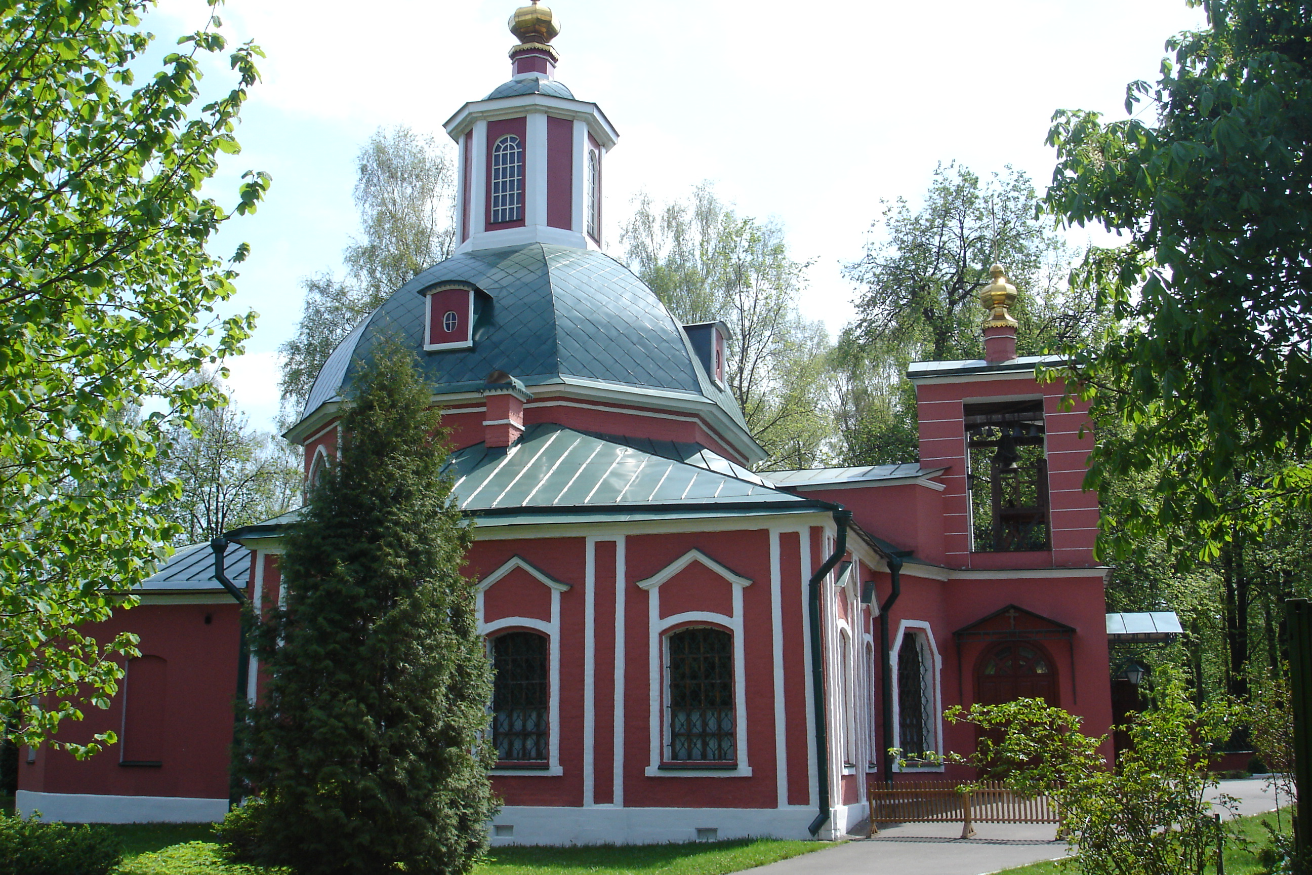 Life-giving Trinity church, Vorontsovo manor park, Moscow.